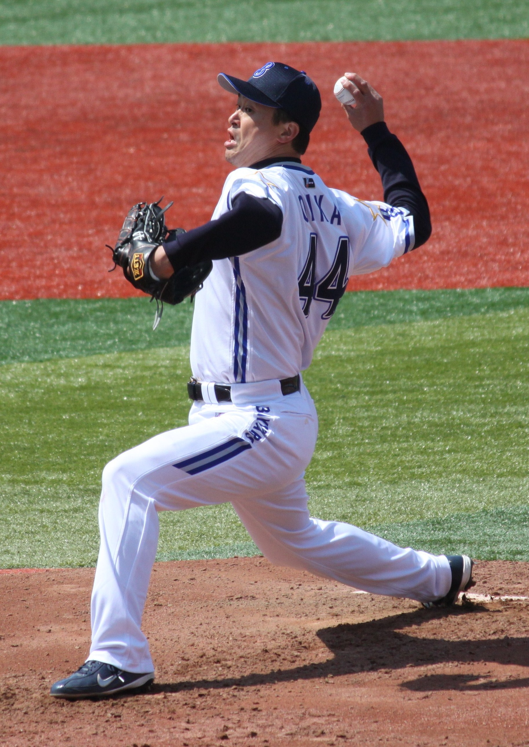 Tomo Ohka, pitcher of the Yokohama BayStars, at Yokohama Stadium.